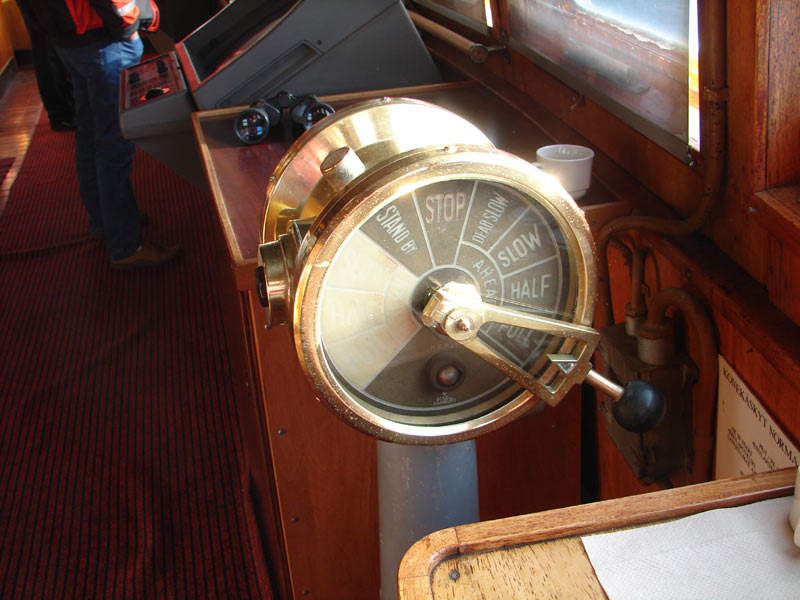 An old but still used Chadburn on the Kristina Regina.